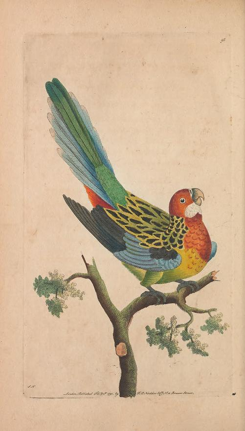 Depiction of holotype of Platycerus eximius, 1792.